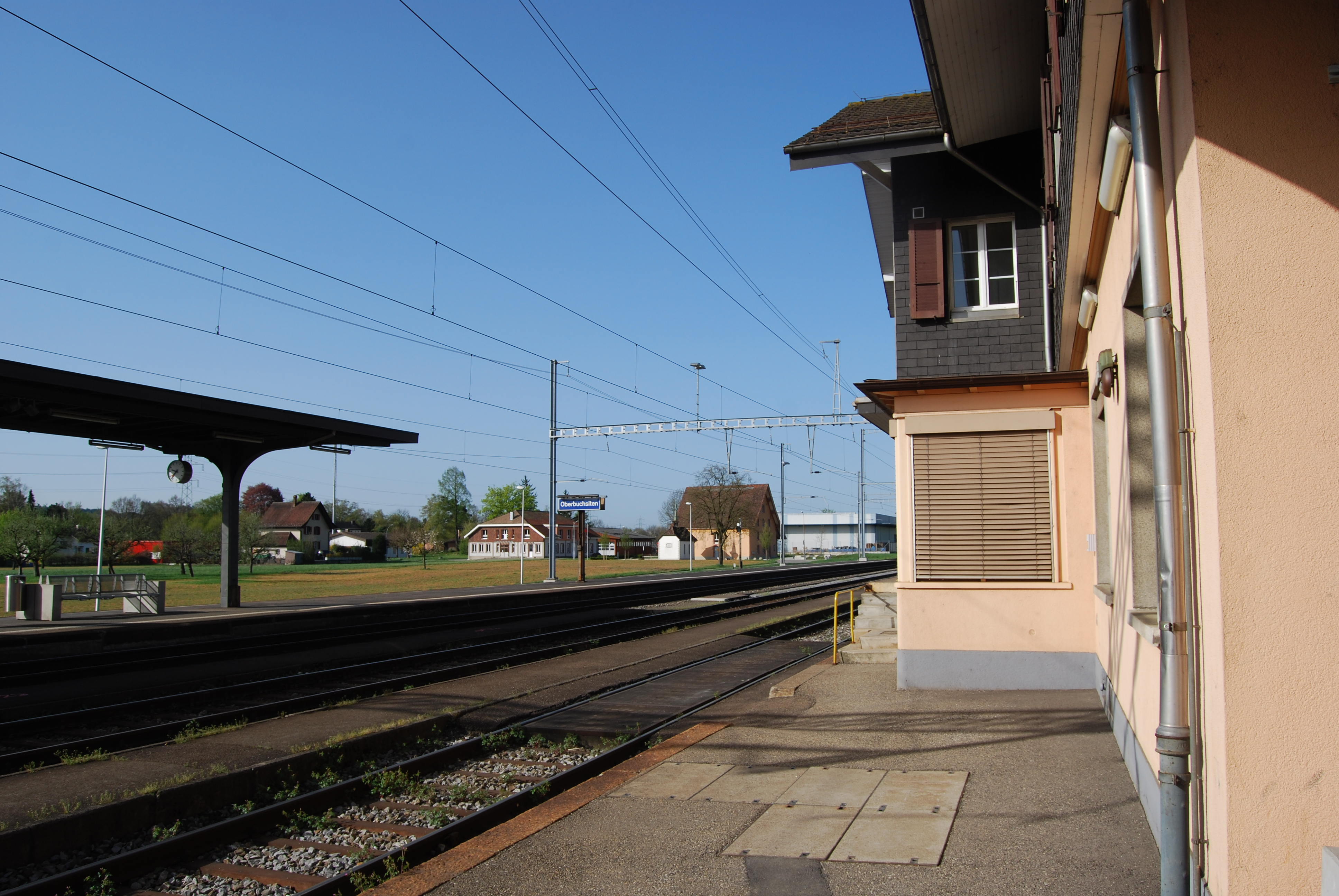 Train station of Oberbuchsiten, canton of Solothurn, SwitzerlandEsperanto: Stacidomo de Oberbuchsiten, Kantono Soloturno, Svislando